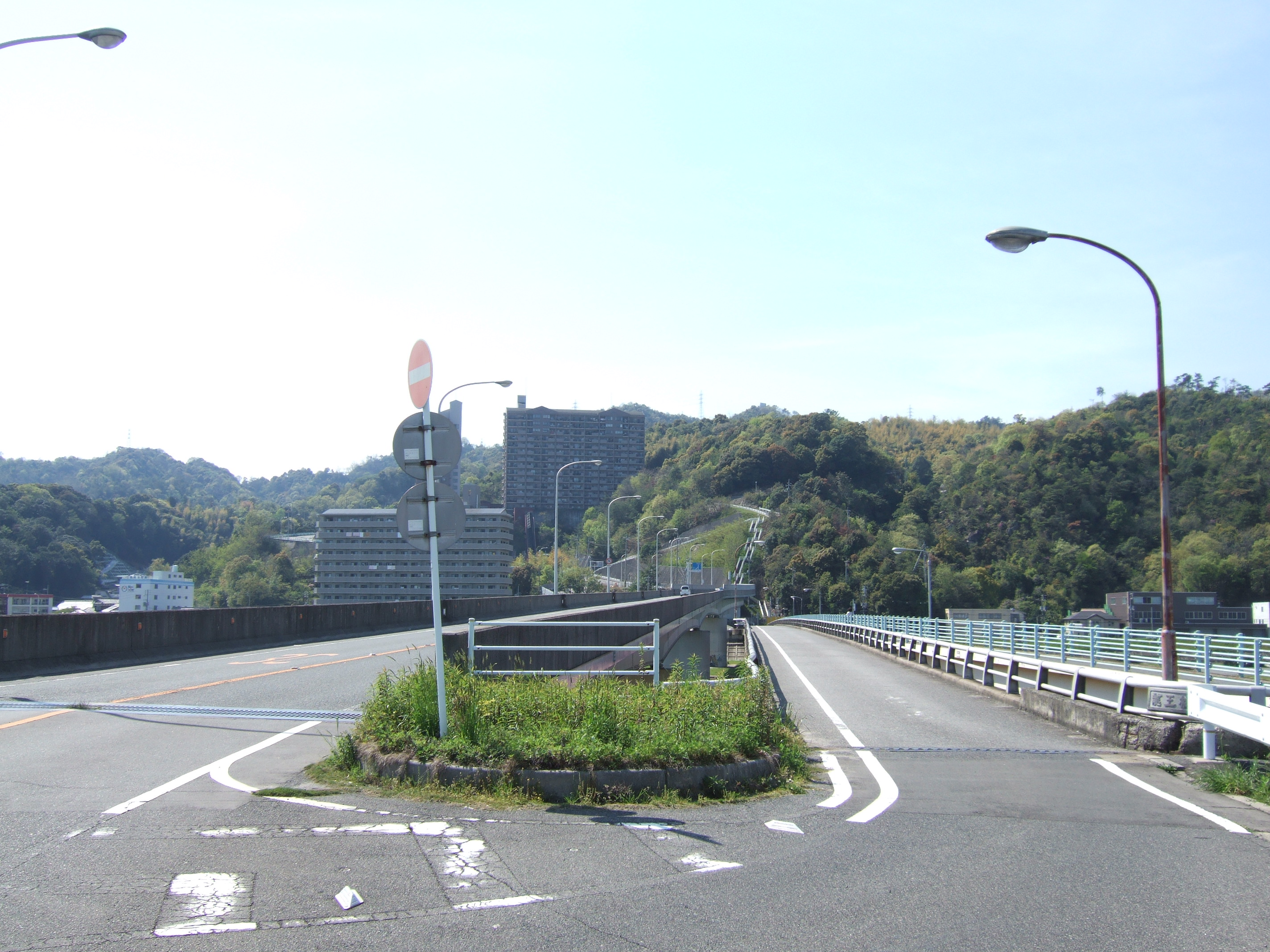 Ryuoh Bridge laid in Ohta River Diversion Cannel, from East Side